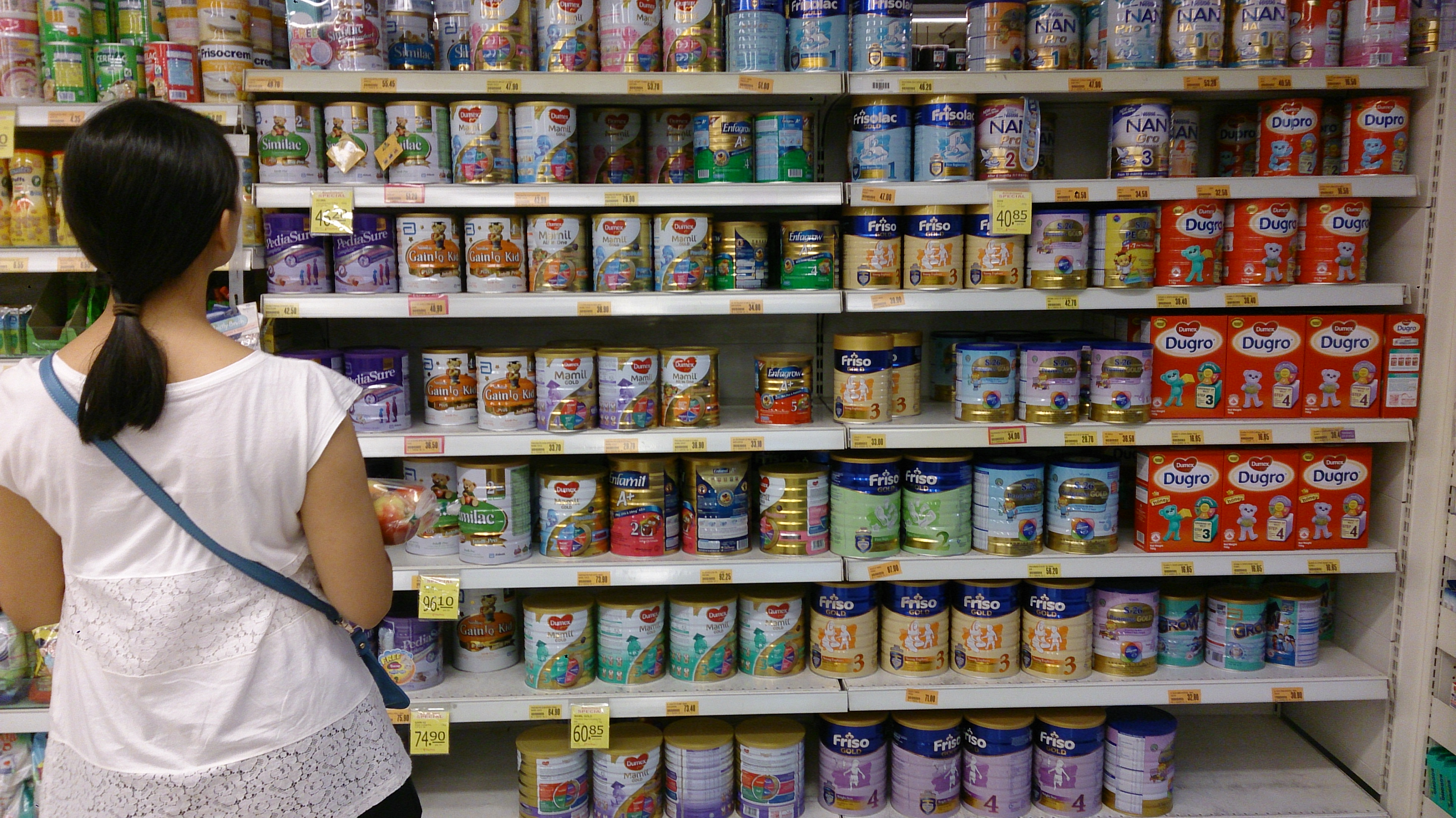 A woman shopping for Infant formula at a supermarket in Singapore.